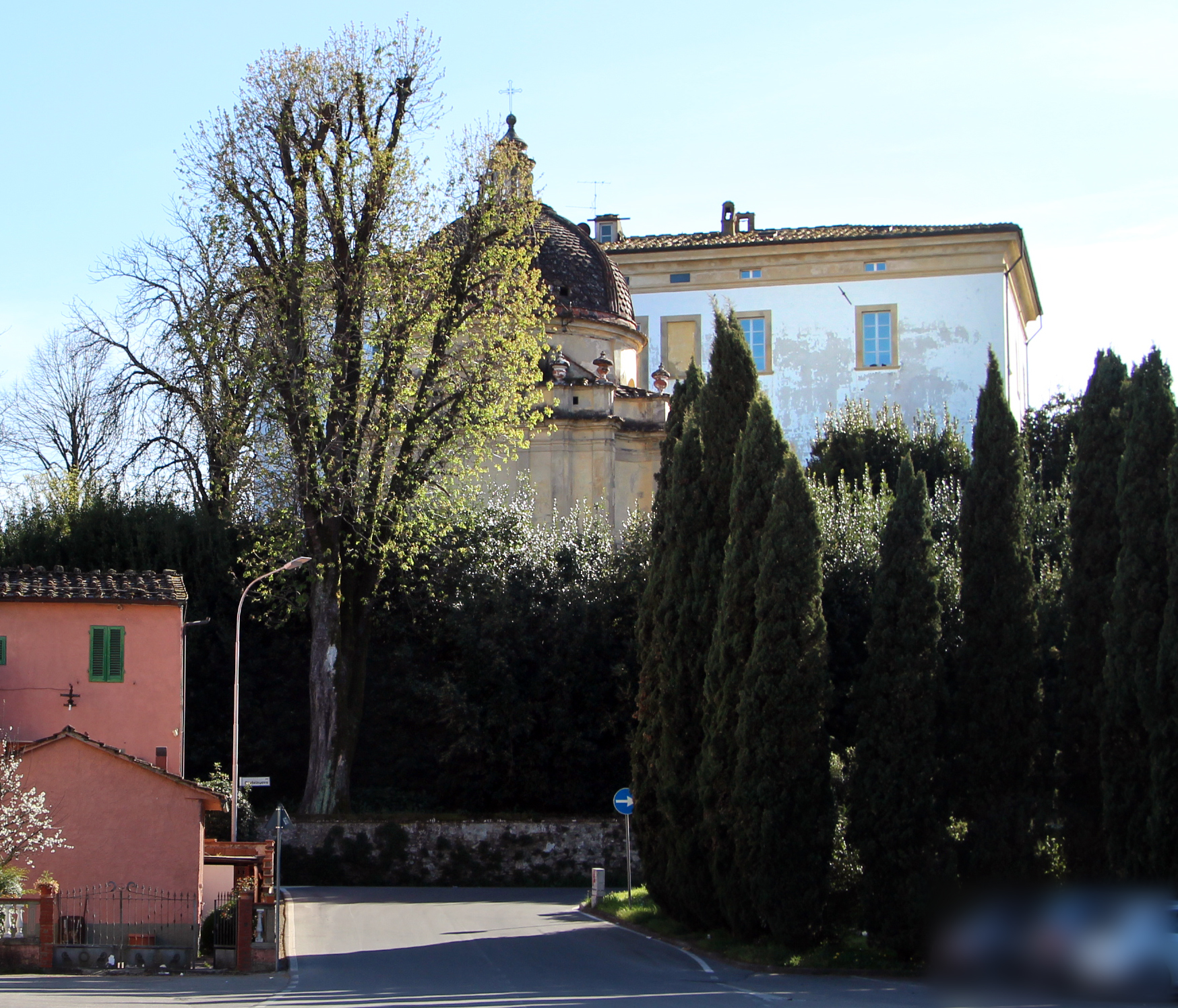 Cantagrillo